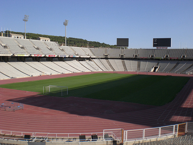 Stadio Olimpico solo di Nome di Lucera